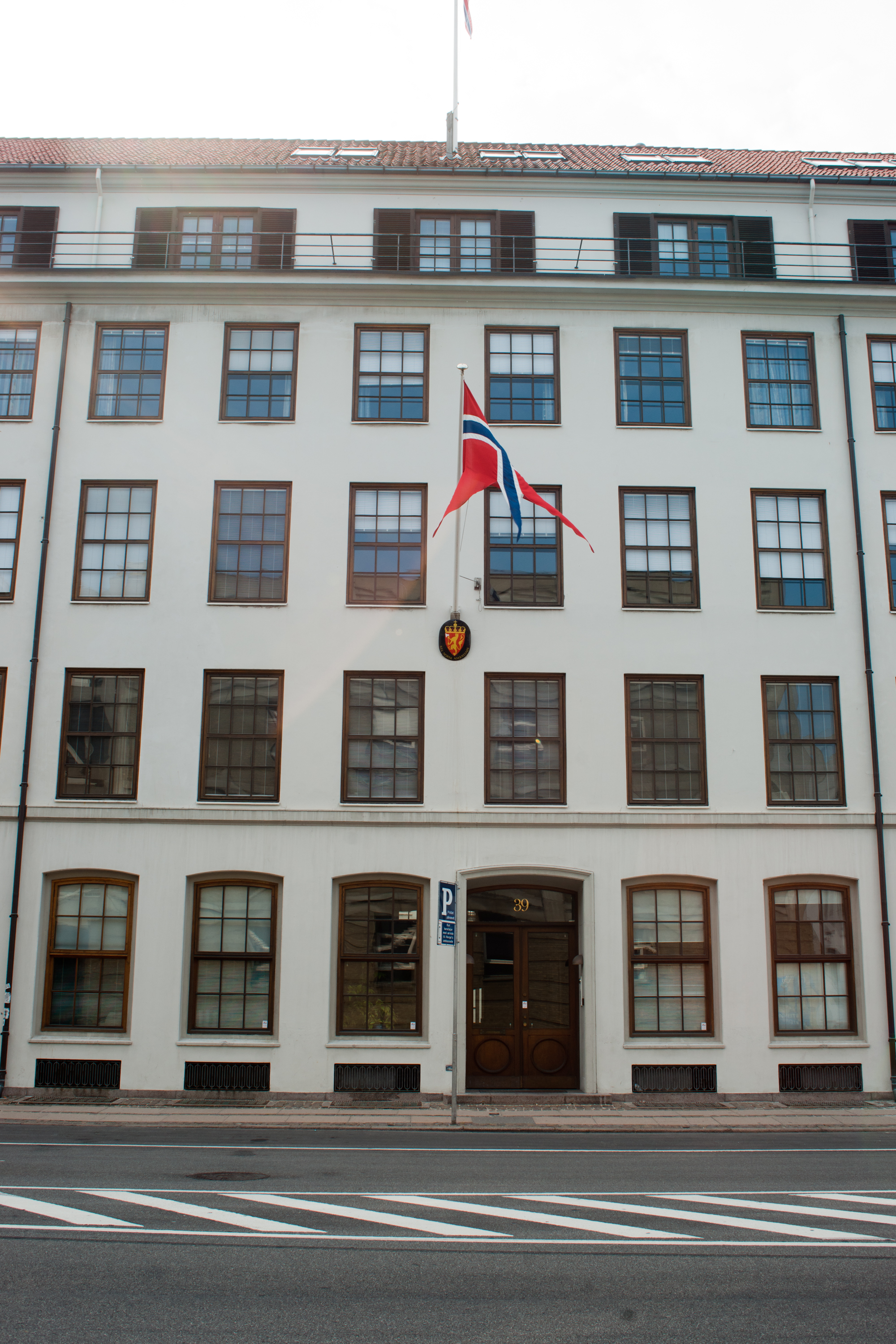 Embassy of Norway at Amaliegade in Copenhagen (Denmark). It has since been moved to Dampfærgevej.